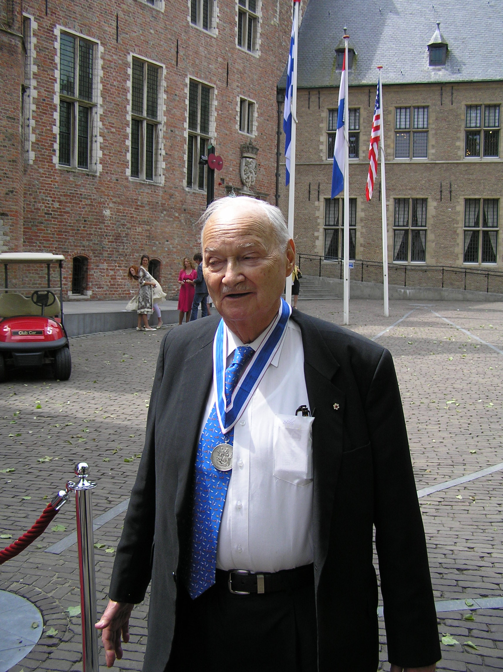 Maurice Strong, shortly after having rewarded the Freedom from Want Award in Middelburg, the Netherlands, 29th of May 2010.